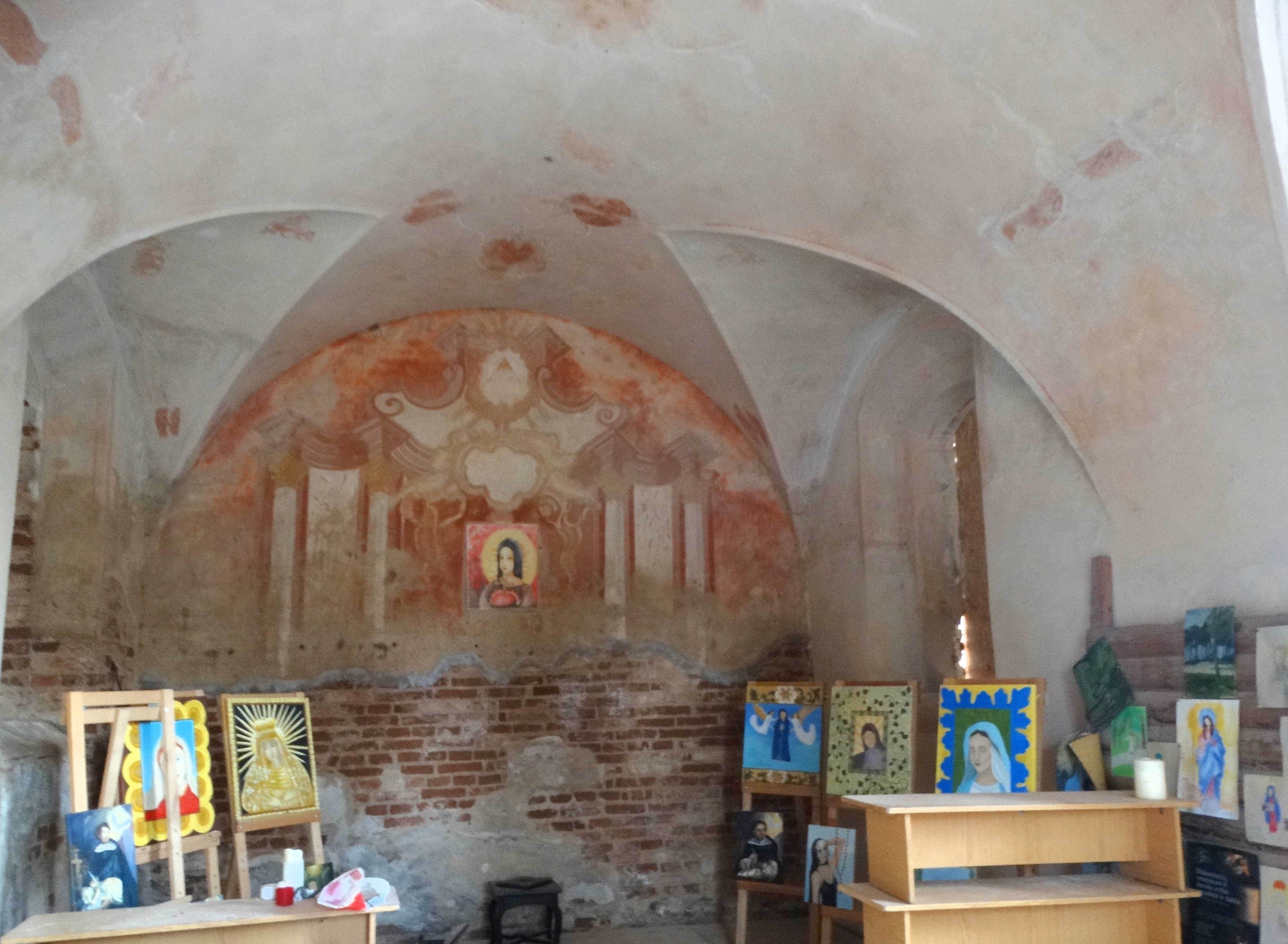 Dominican chapel, interior, Paparčiai, Kaišiadorys District, Lithuania